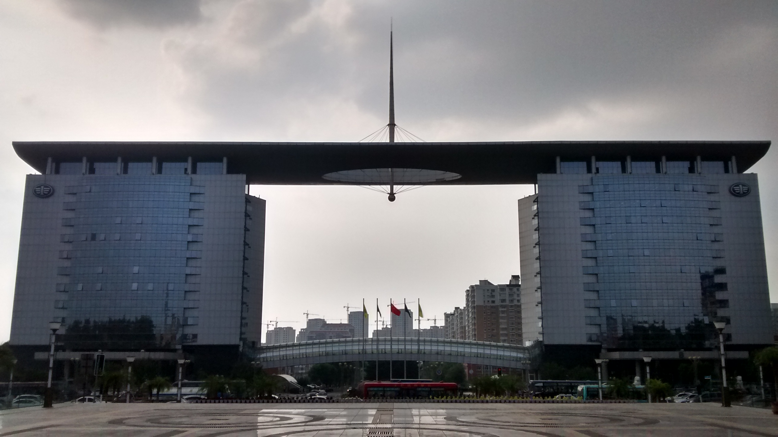 China FAW Group Corporation 中国第一汽车集团公司 main building